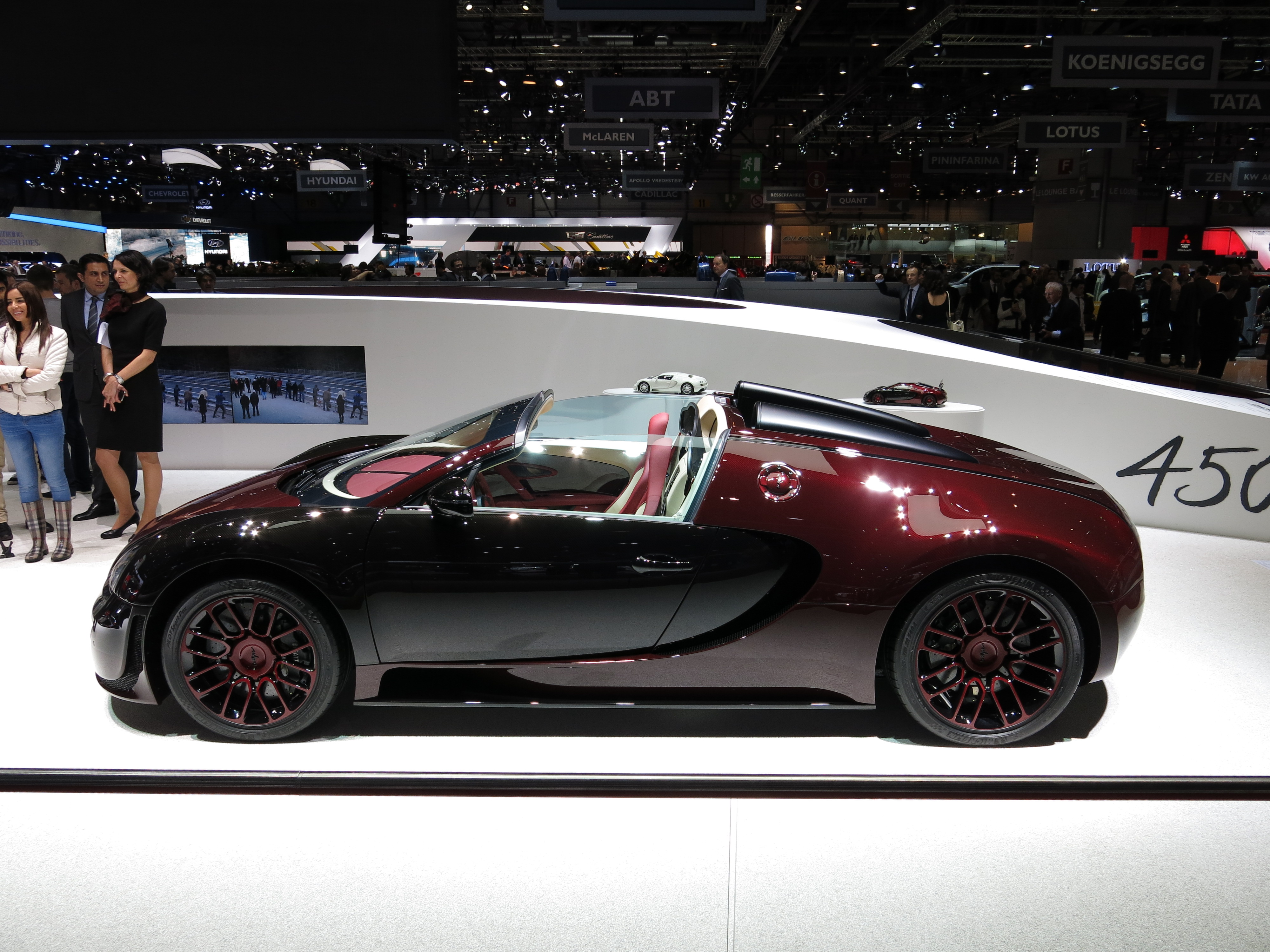 Geneva Motor Show 2015 (photo taken on the first press day)